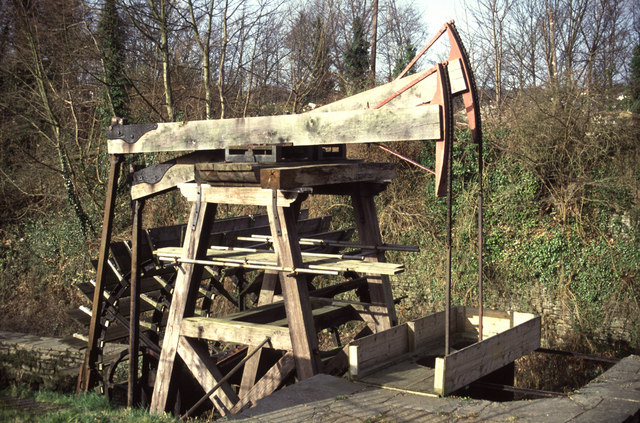 Melingriffith water pump. Another view. I've scanned it, so I'm going to submit it.